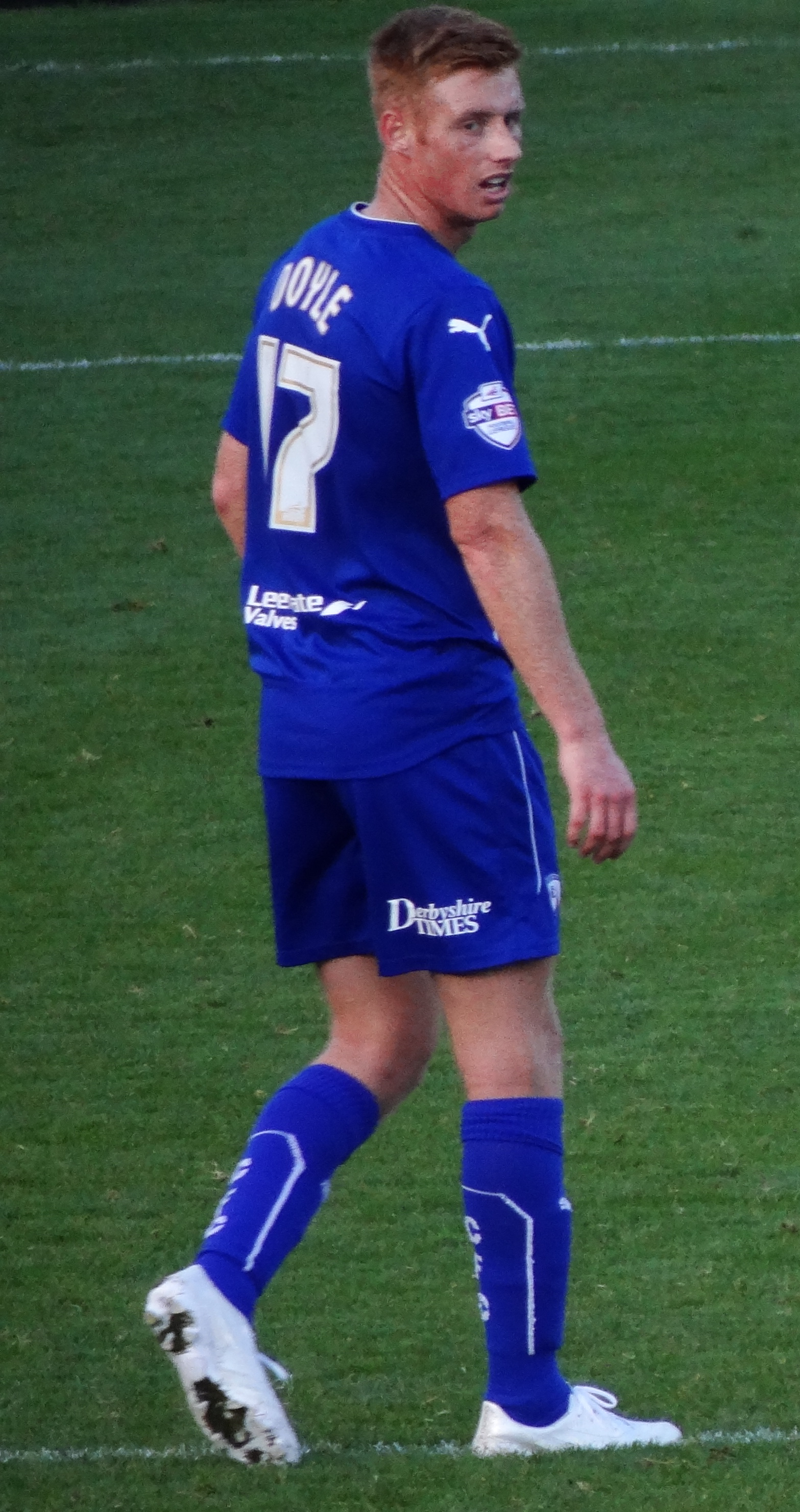 Eoin Doyle playing for Chesterfield in a League One match against Walsall on 25 October 2014.